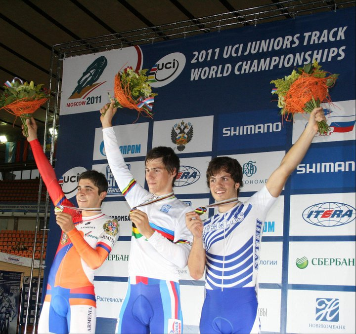 During the Ceremony at the Junior's World Track Cycling Championships in Moscow 2011 (Bronze Medal)